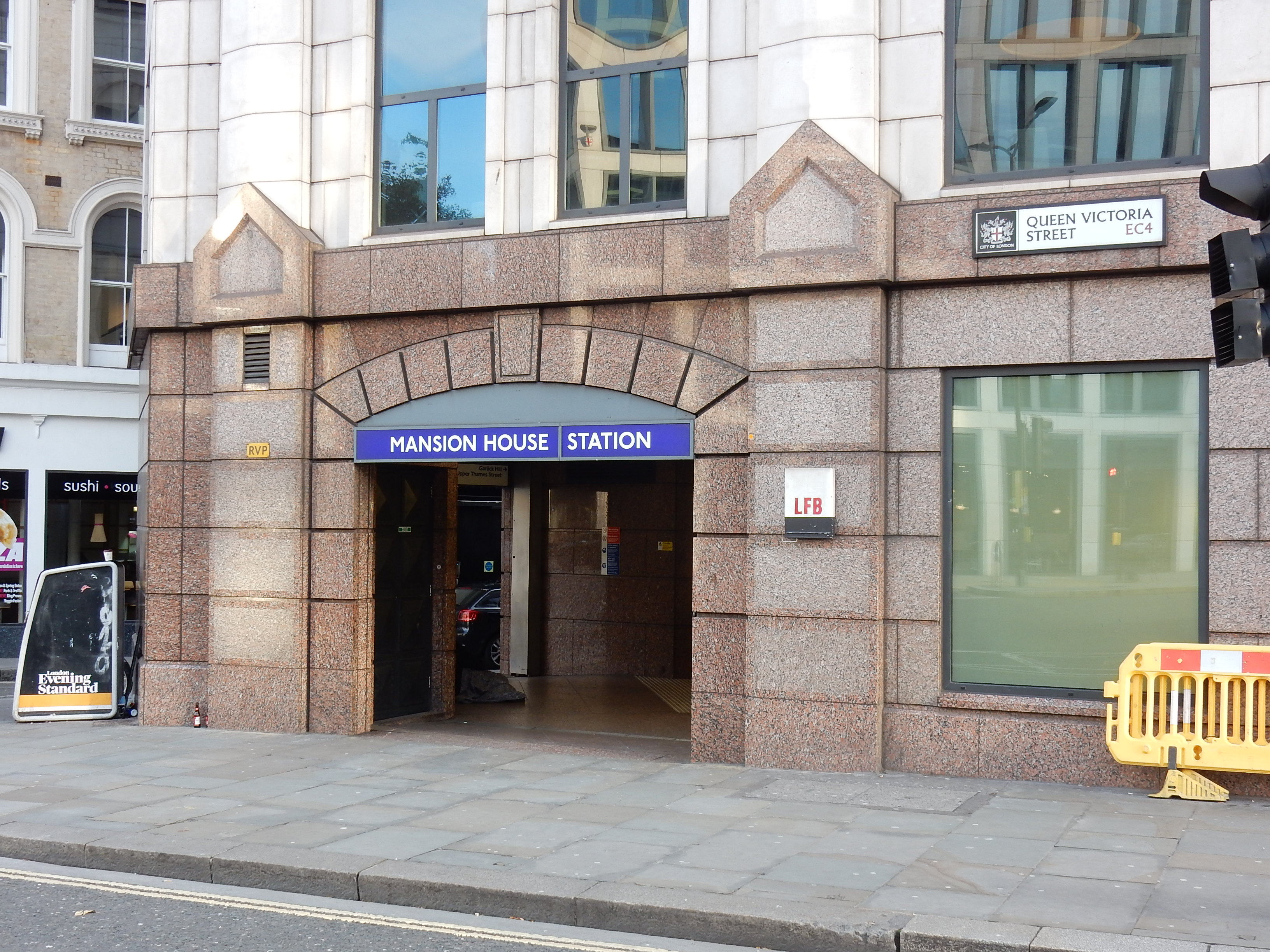 Mansion House station main northern entrance in 2019